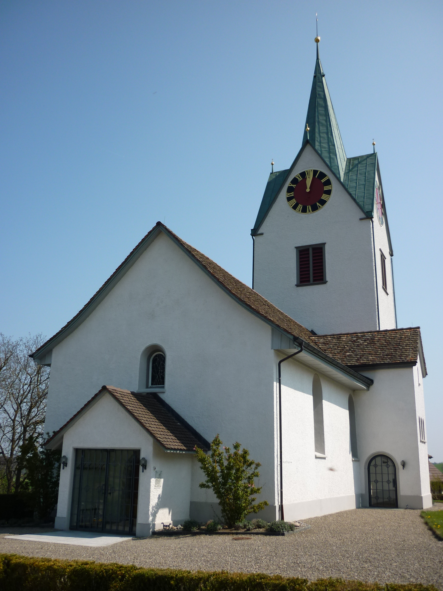 Old church of Buch am Irchel ZH, Switzerland